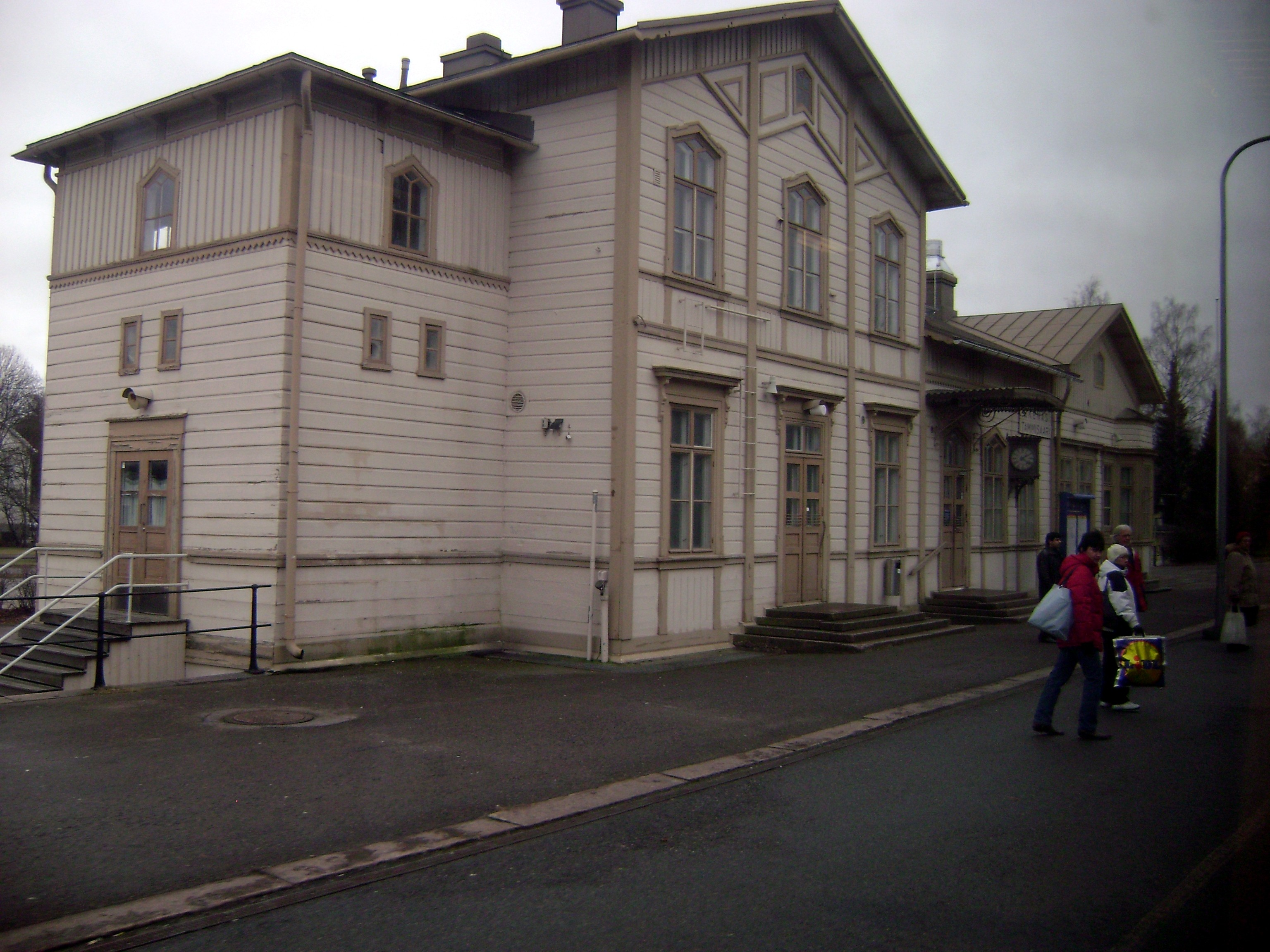 Ekenäs railway station.